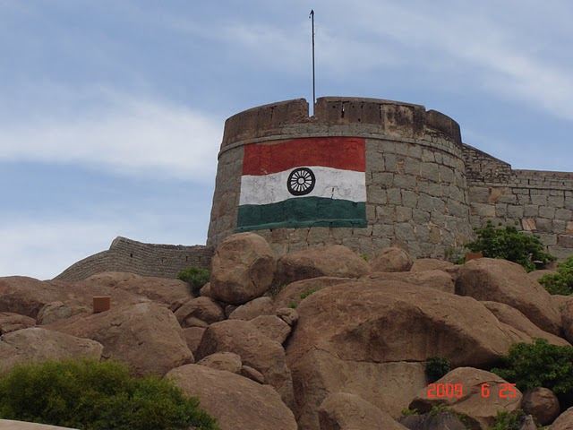 The Indian Flag painted on the fort walls on the hill is visible from many parts of city.